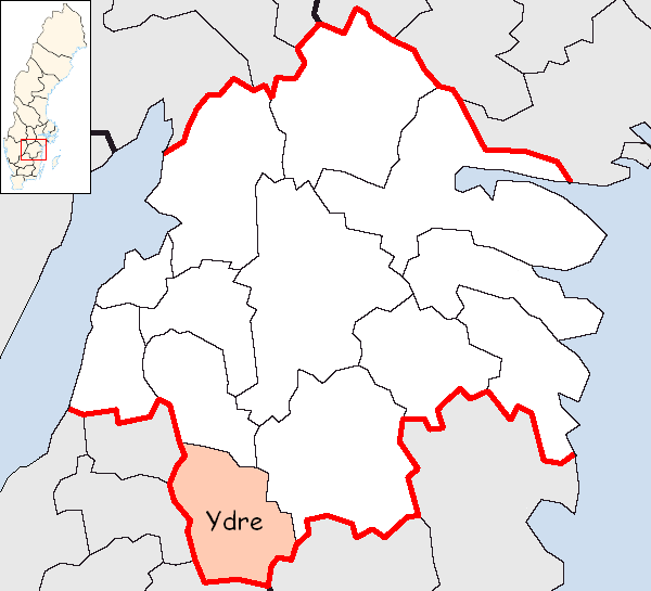 Ydre Municipality in Östergötland County Designed by me. Mere outlines are a PD source from